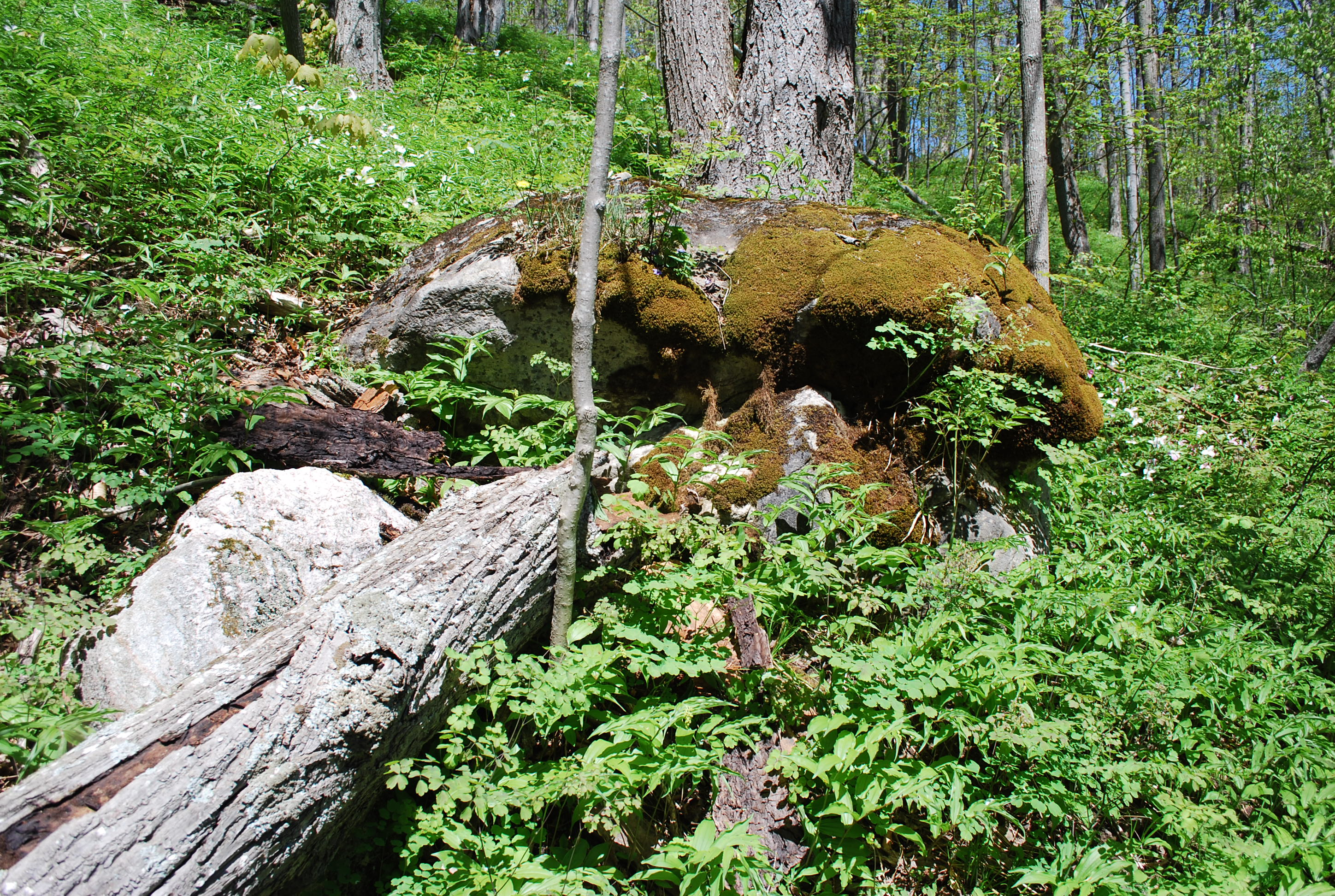 Eugenia has a very large network of trails.